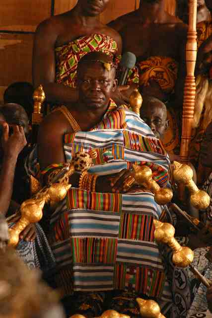 King Asantehene Osei Tutu II of Ashanti Asanteman.